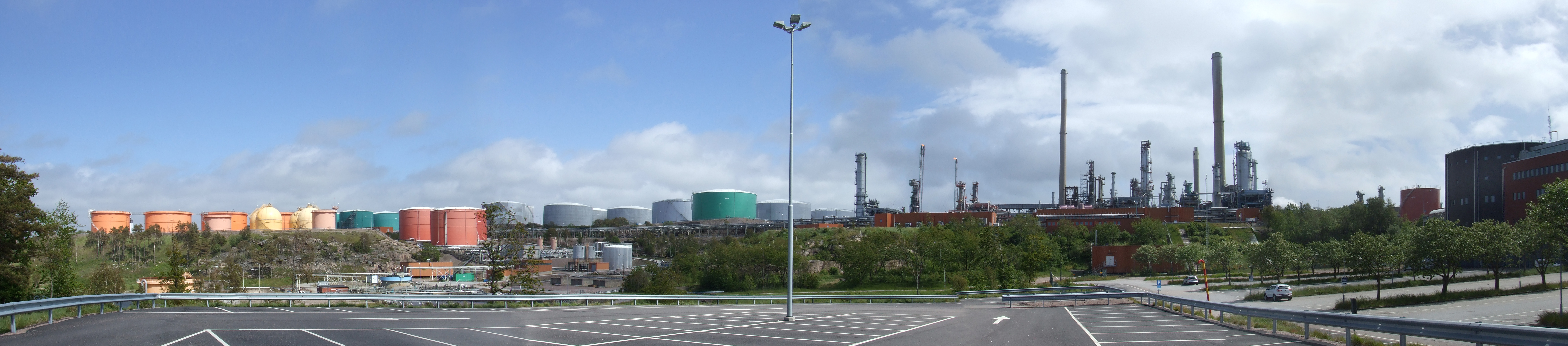 Panorama/composit made from four pictures of the Preemraff oil refinery in Lysekil, Sweden. Photon taken from the parking lot 7 June 2015.